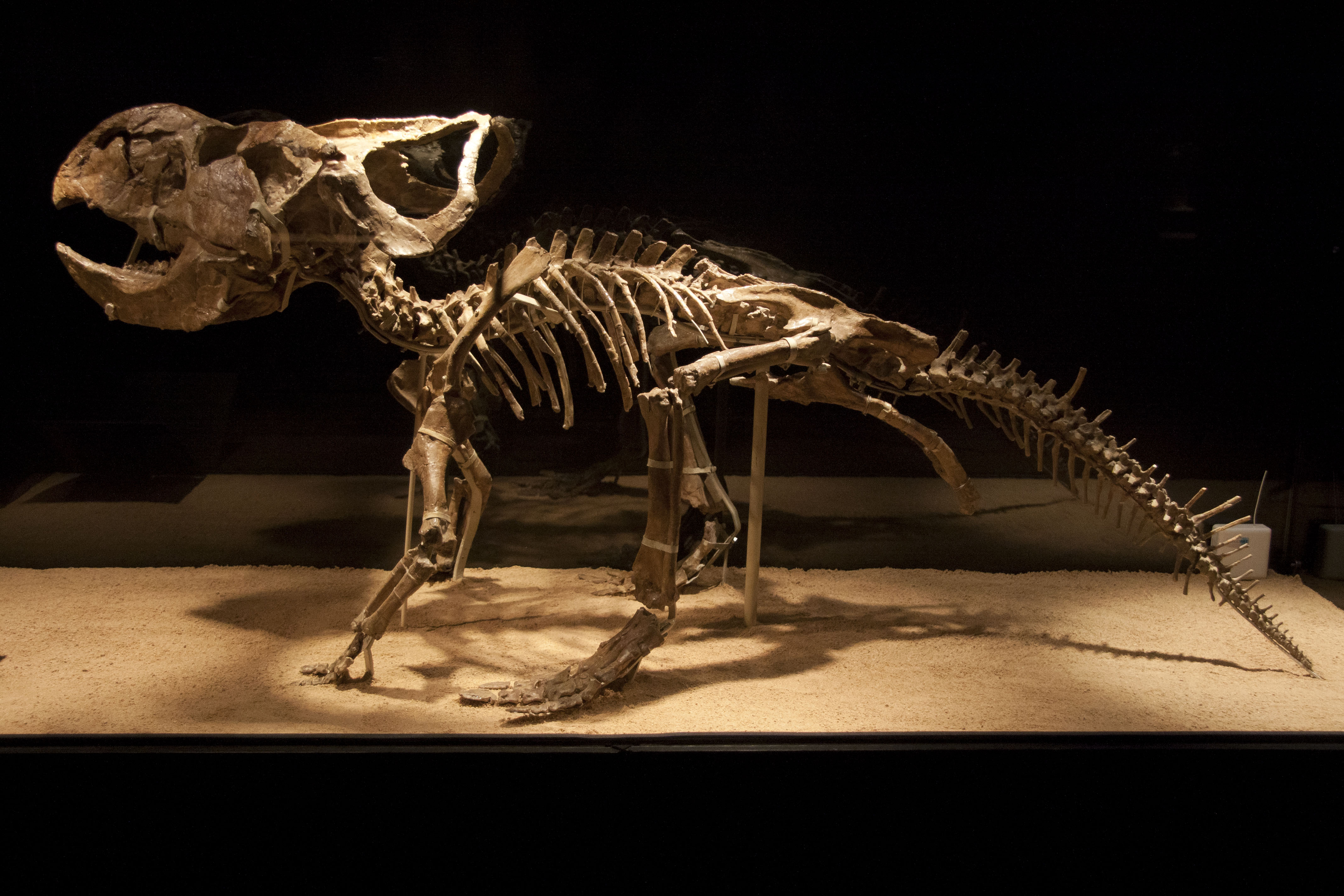 Protoceratops in Barcelona.